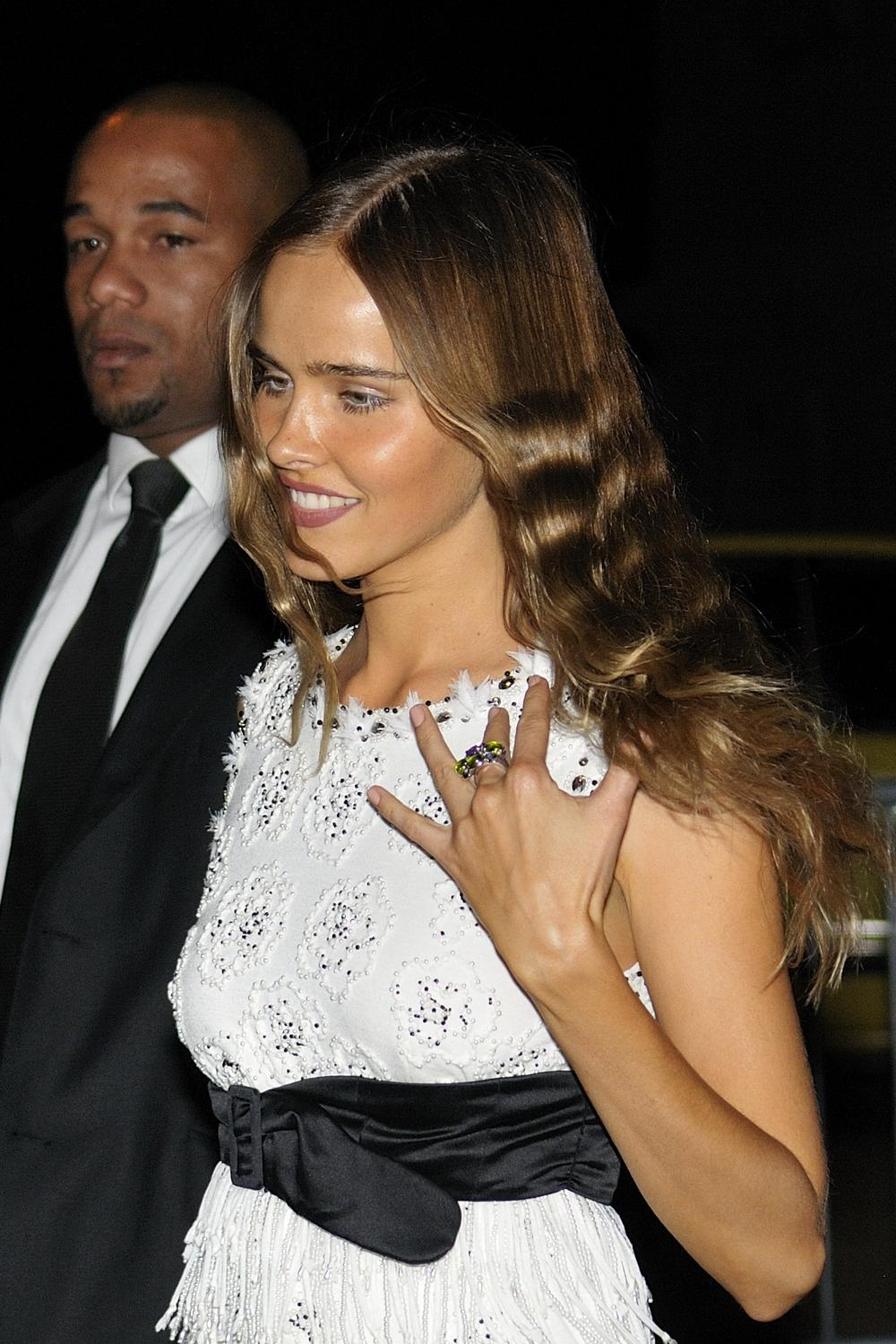 Actress Isabel Lucas – Défilé Channel